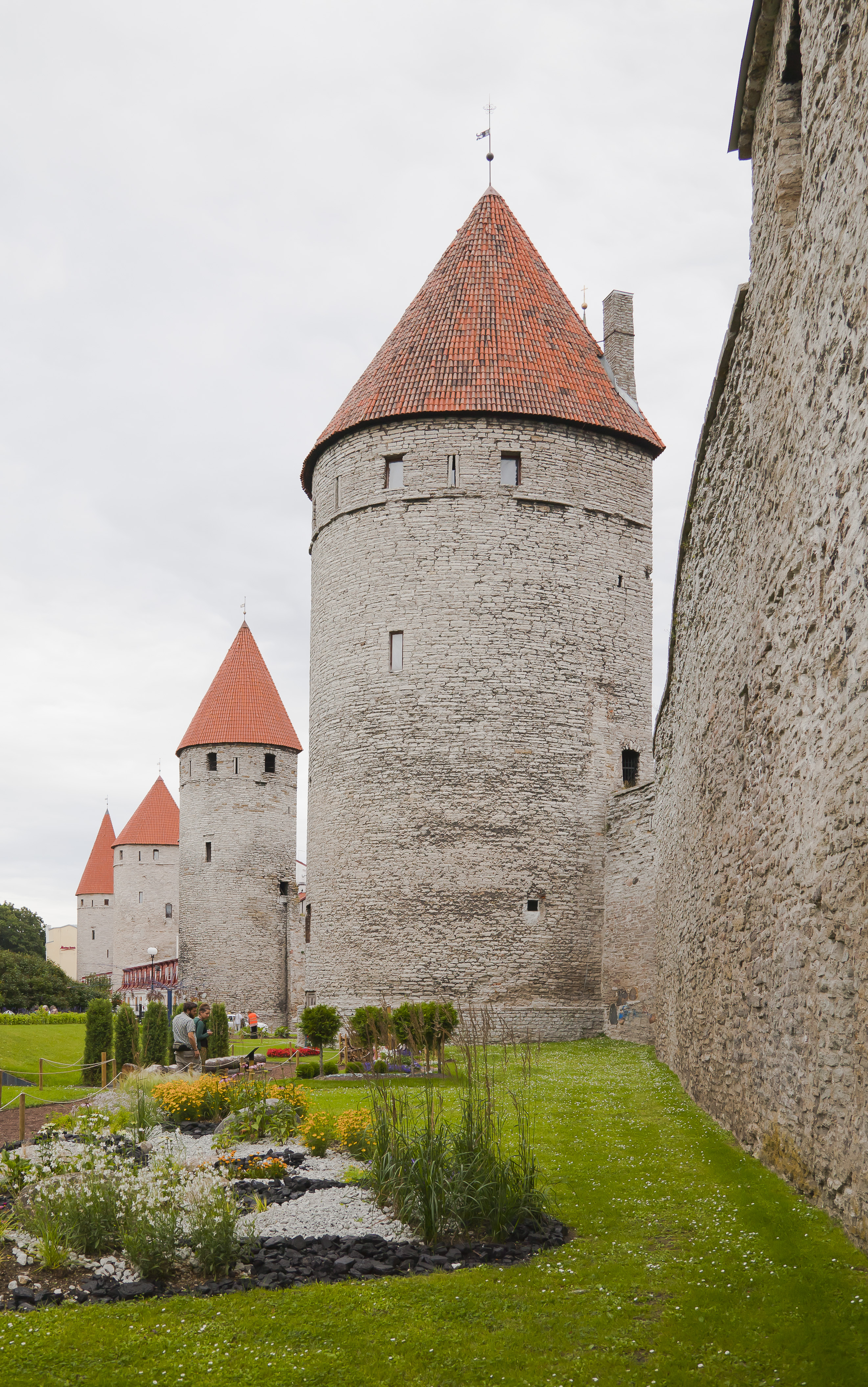 Walls of the old city of Tallinn, Estonia